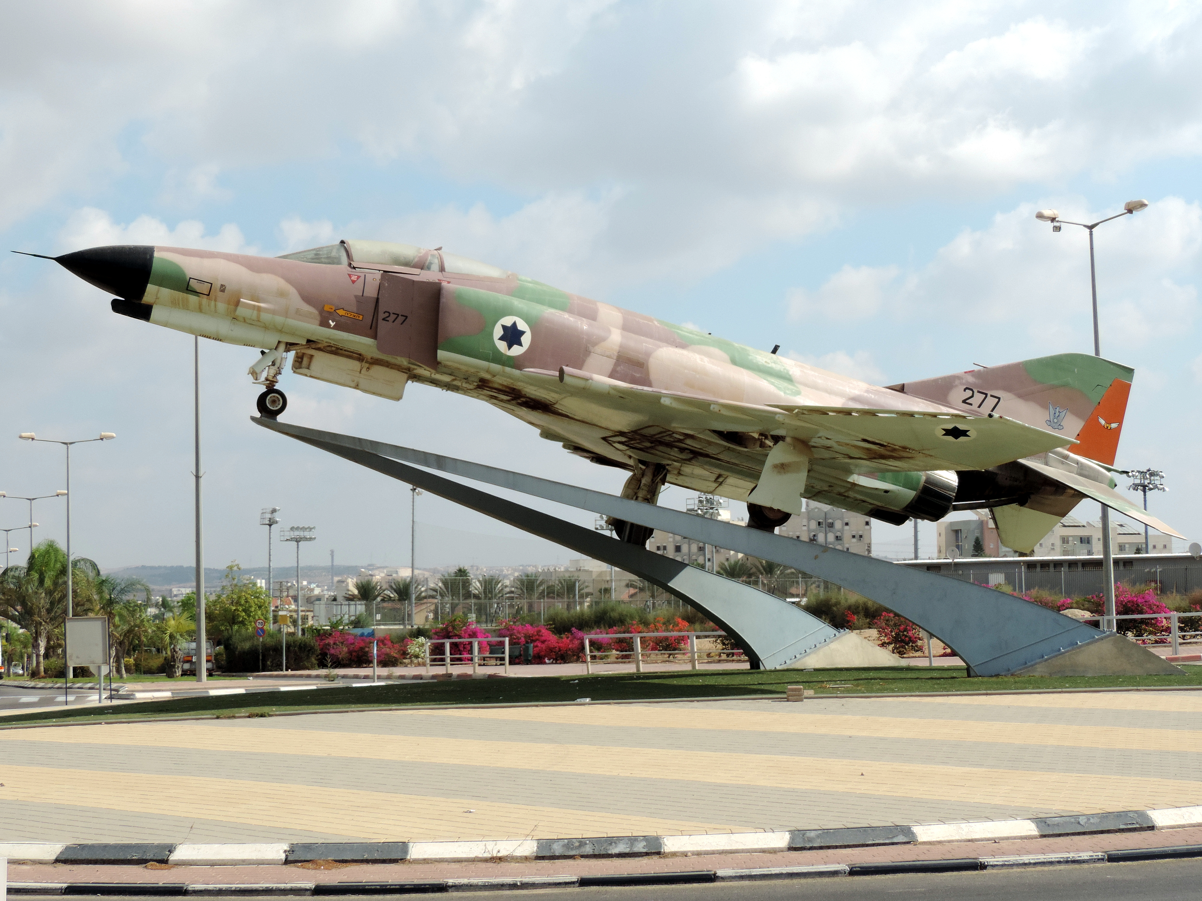 At the Israel Air Force museum in Hazerim